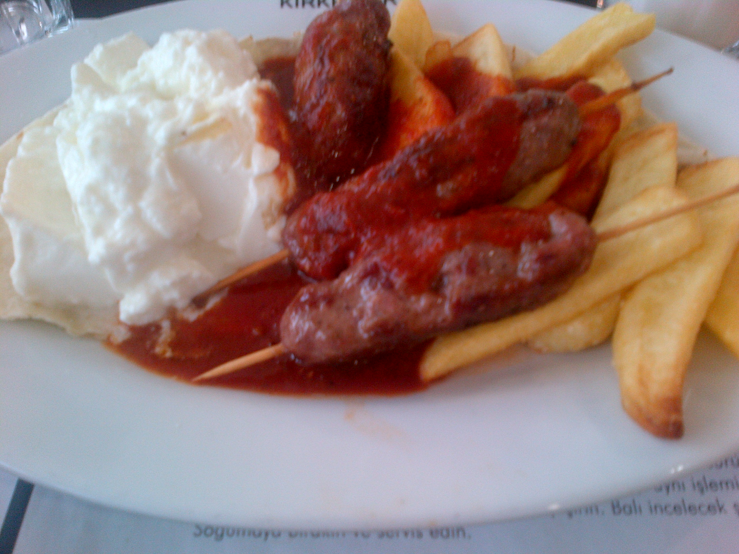 "Şiş köfte" with fries, yoğurt, and a hot tomata sauce, in Turkey.